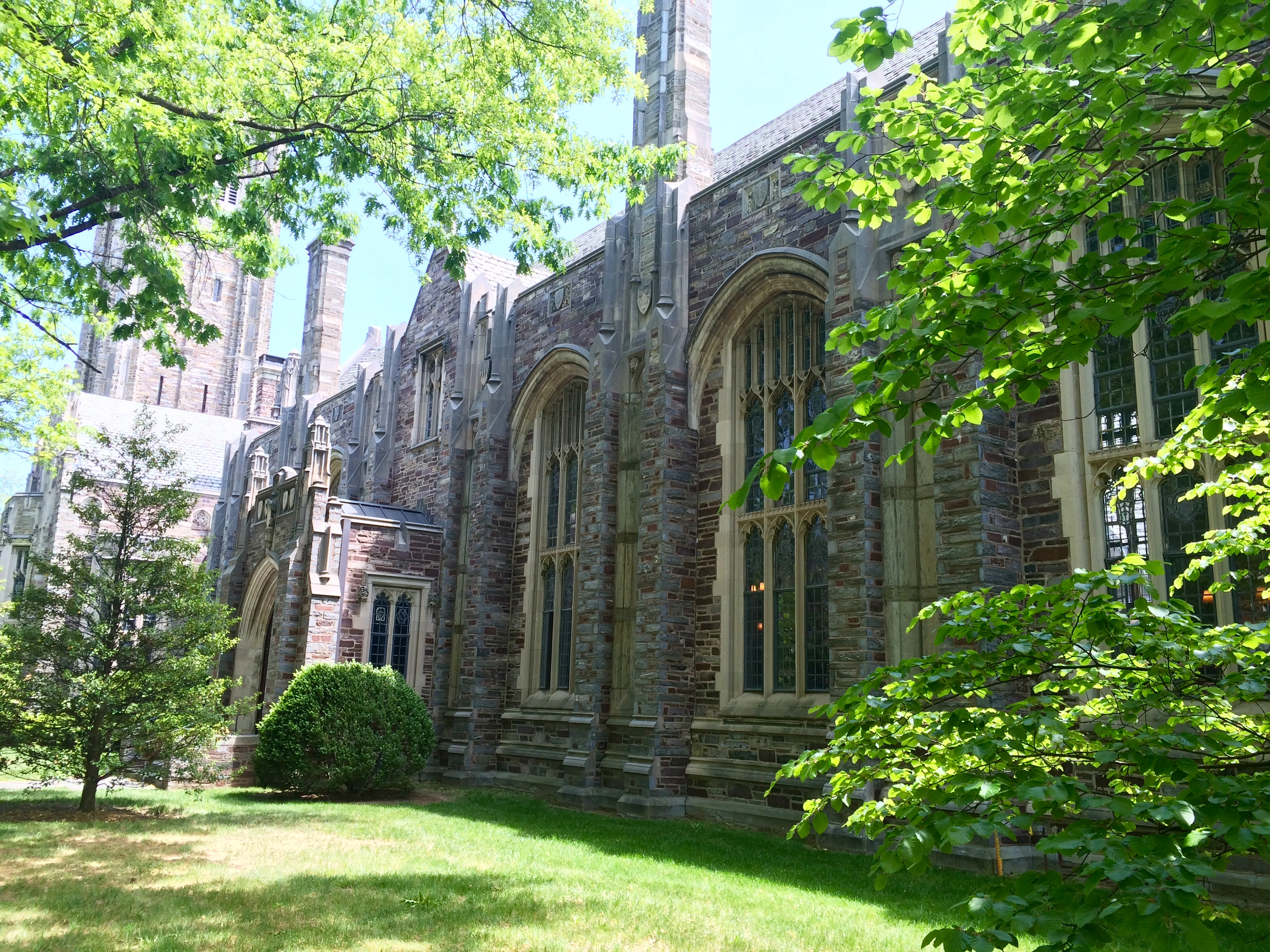 Rockefeller College dining hall, part of Madison Hall of Princeton University, from Nassau Street.